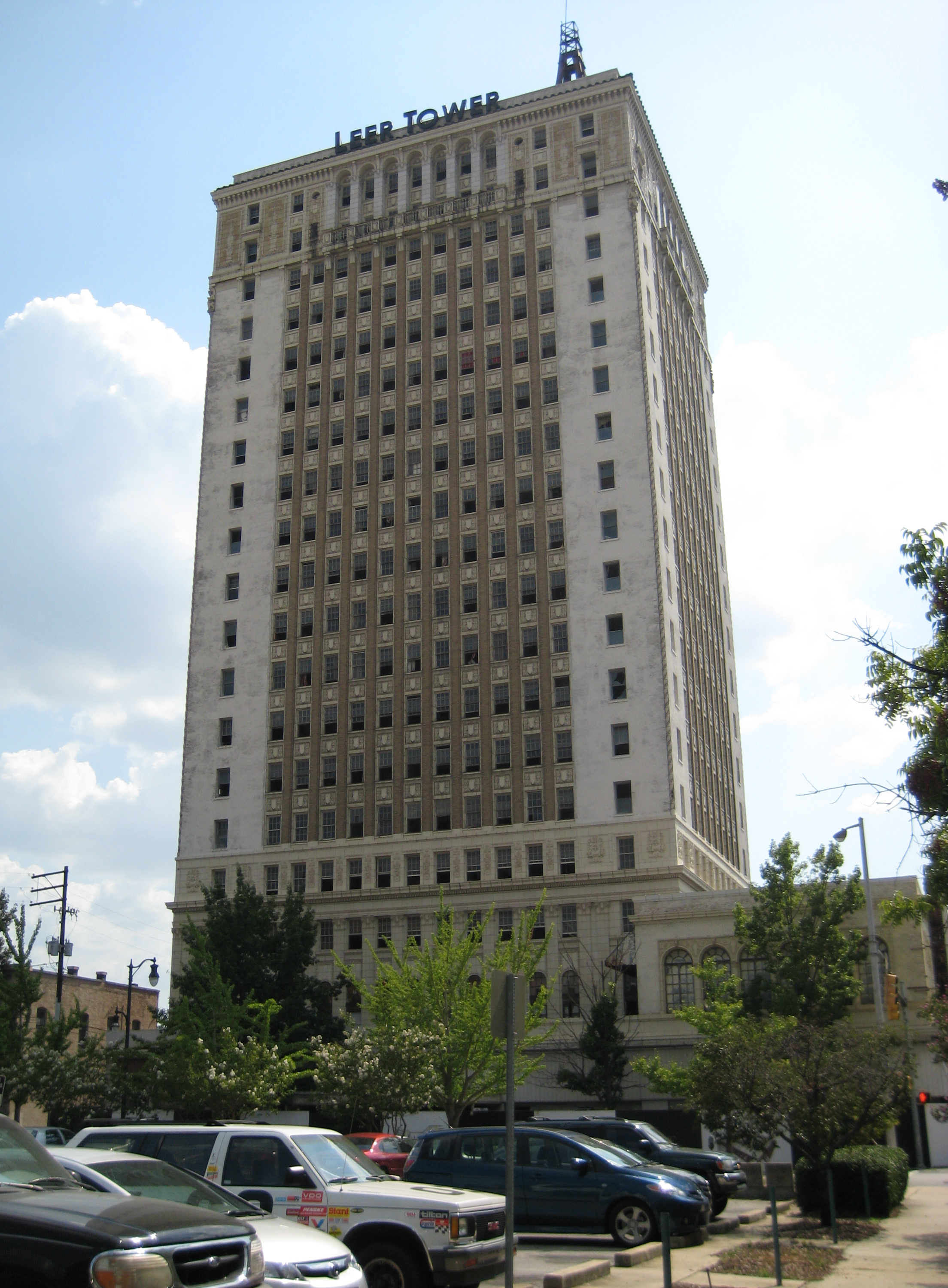 Leer Tower in Birmingham, Alabama. The former hotel has been converted to use as a condominium.